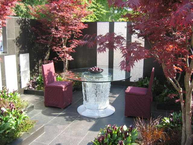 Photograph of Lalique Garden at Chelsea Flower Show, May 2005